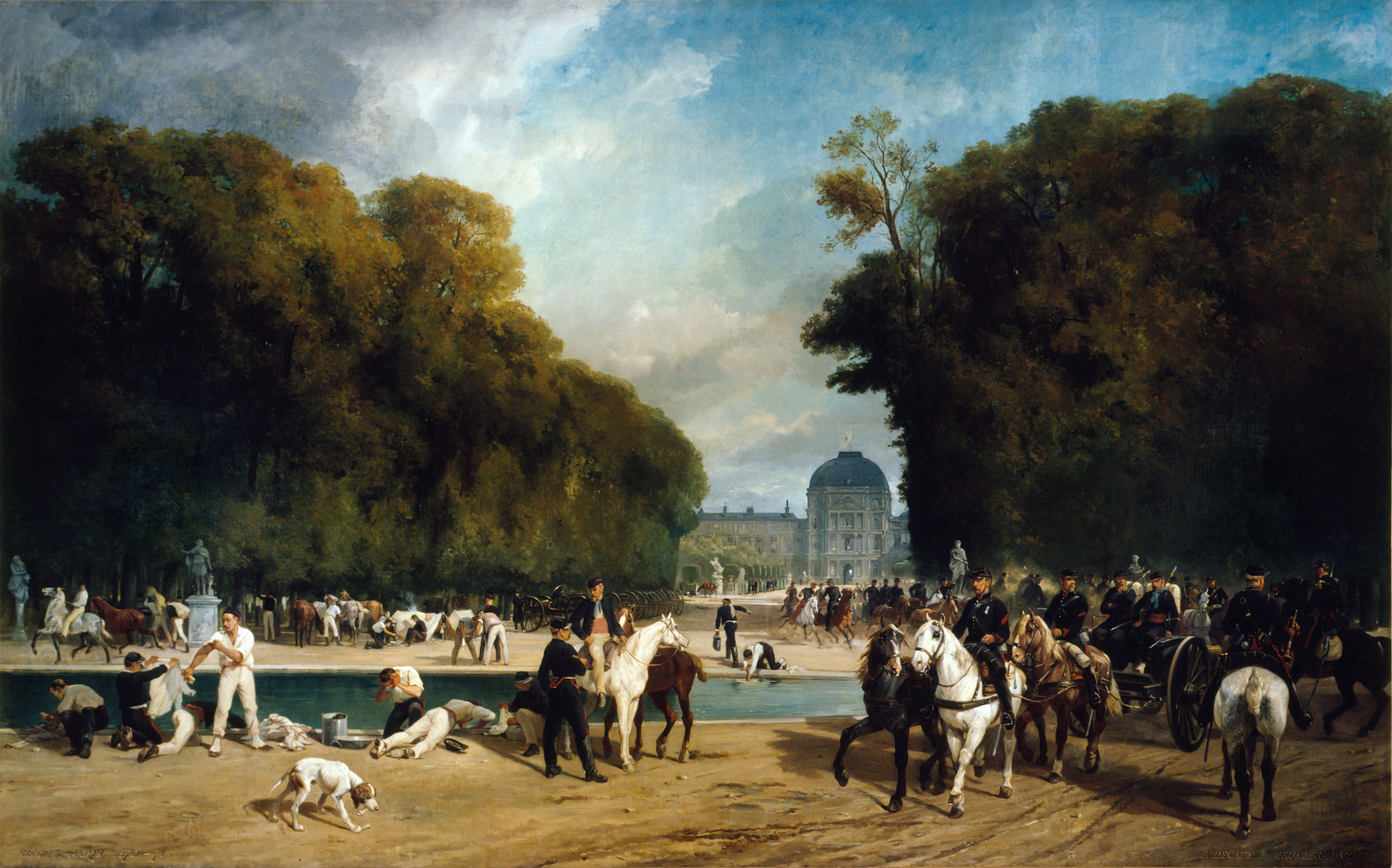 French artillery encamped in the Tuileries gardens during the siege of Paris, late September 1870 von Emile Brunner-Lacoste, Alfred Decaen